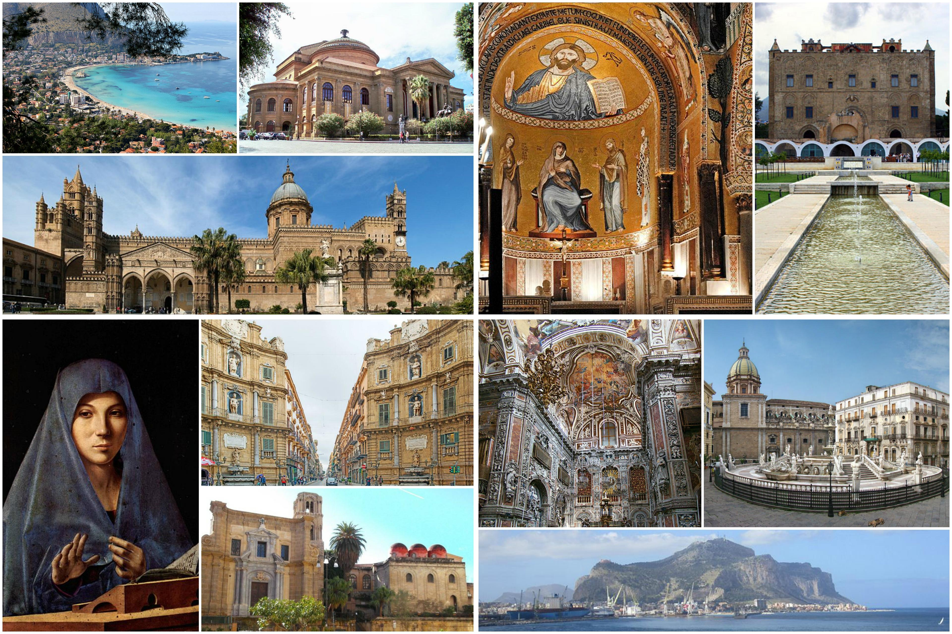 Montage of Palermo. List of images: Mondello, Teatro Massimo, Cappella Palatina, La Zisa, Palermo Cathedral, Virgin Annunciate of Antonello da Messina (Palazzo Abatellis), Quattro Canti, Church of Santa Caterina, Piazza Pretoria, La Martorana and San Cataldo, Monte Pellegrino